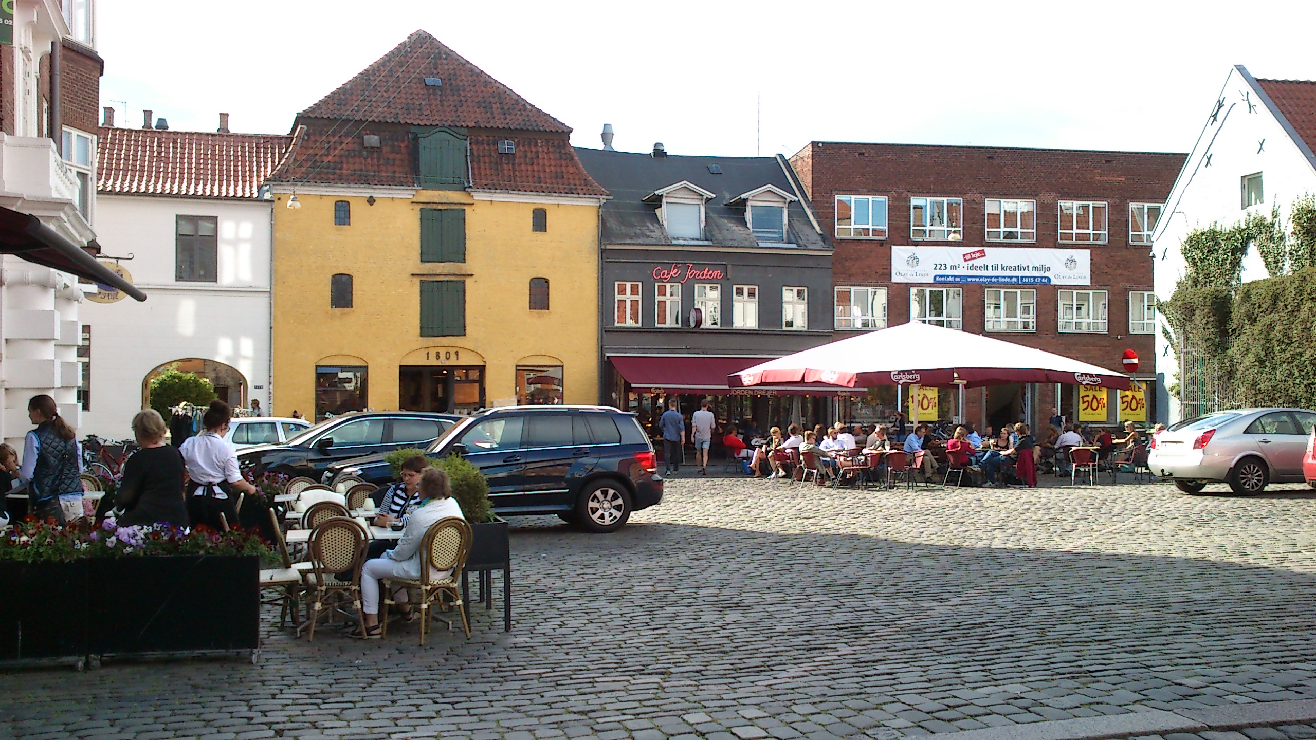 Pustervig Torv in June.